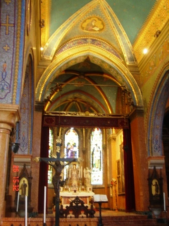 The court of the monastery on Saint Lazarus Island near Venezia, Italy